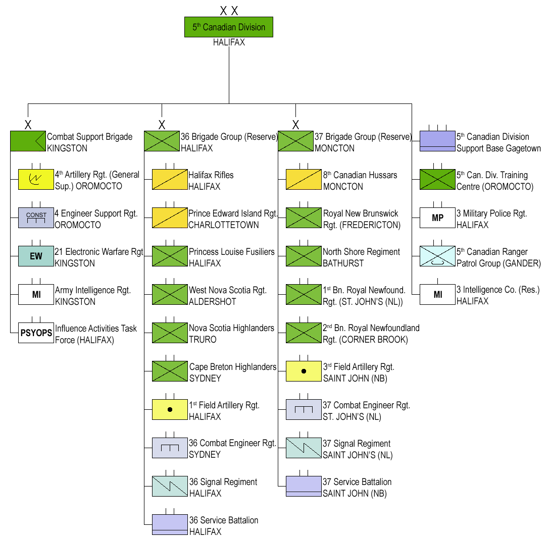 Structure of the 5th Canadian Division 2013